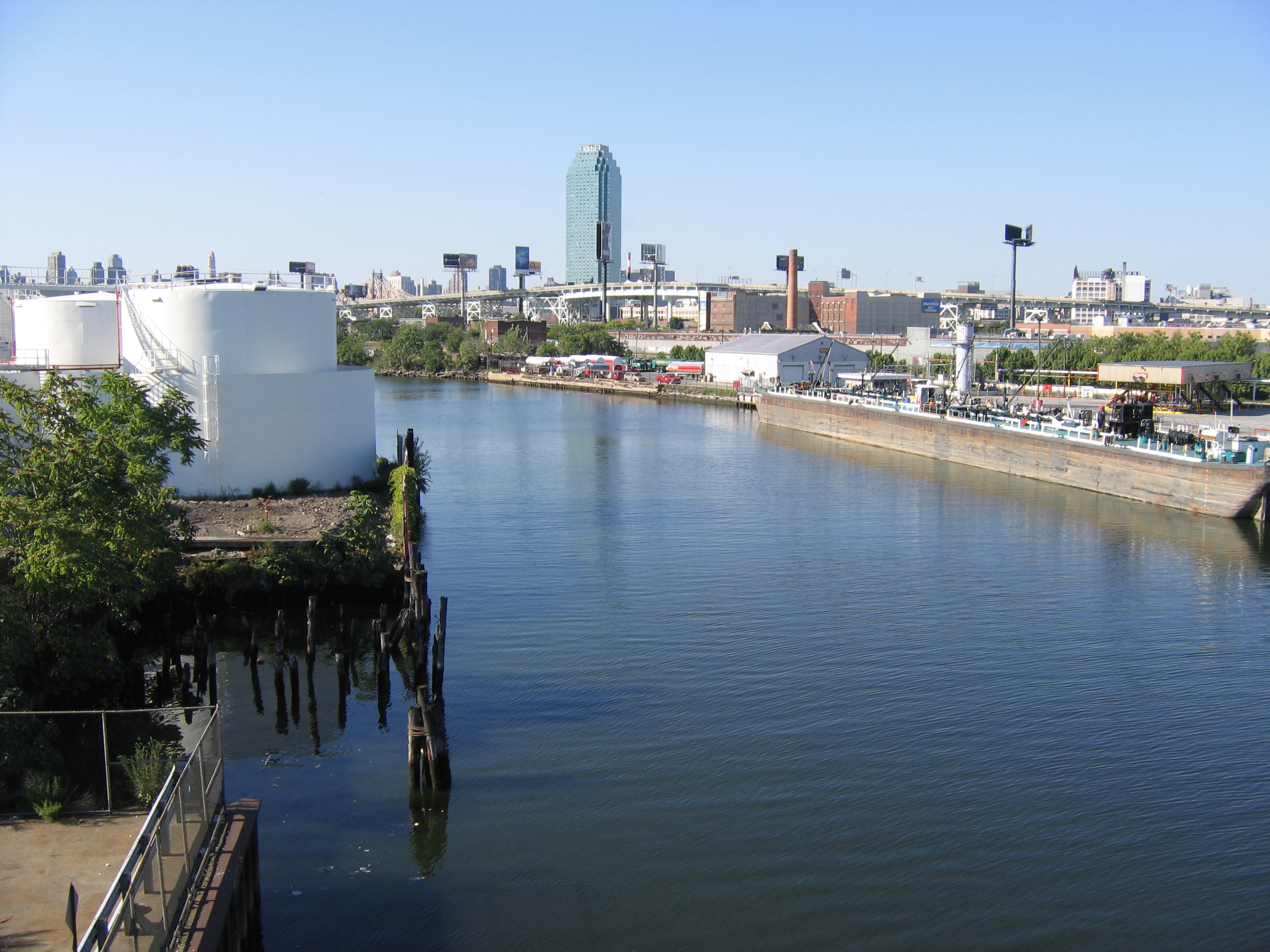 Newtown Creek, New York City, viewed looking west from the Greenpoint Avenue Bridge. Citicorp Building in Queens visible in the distance.